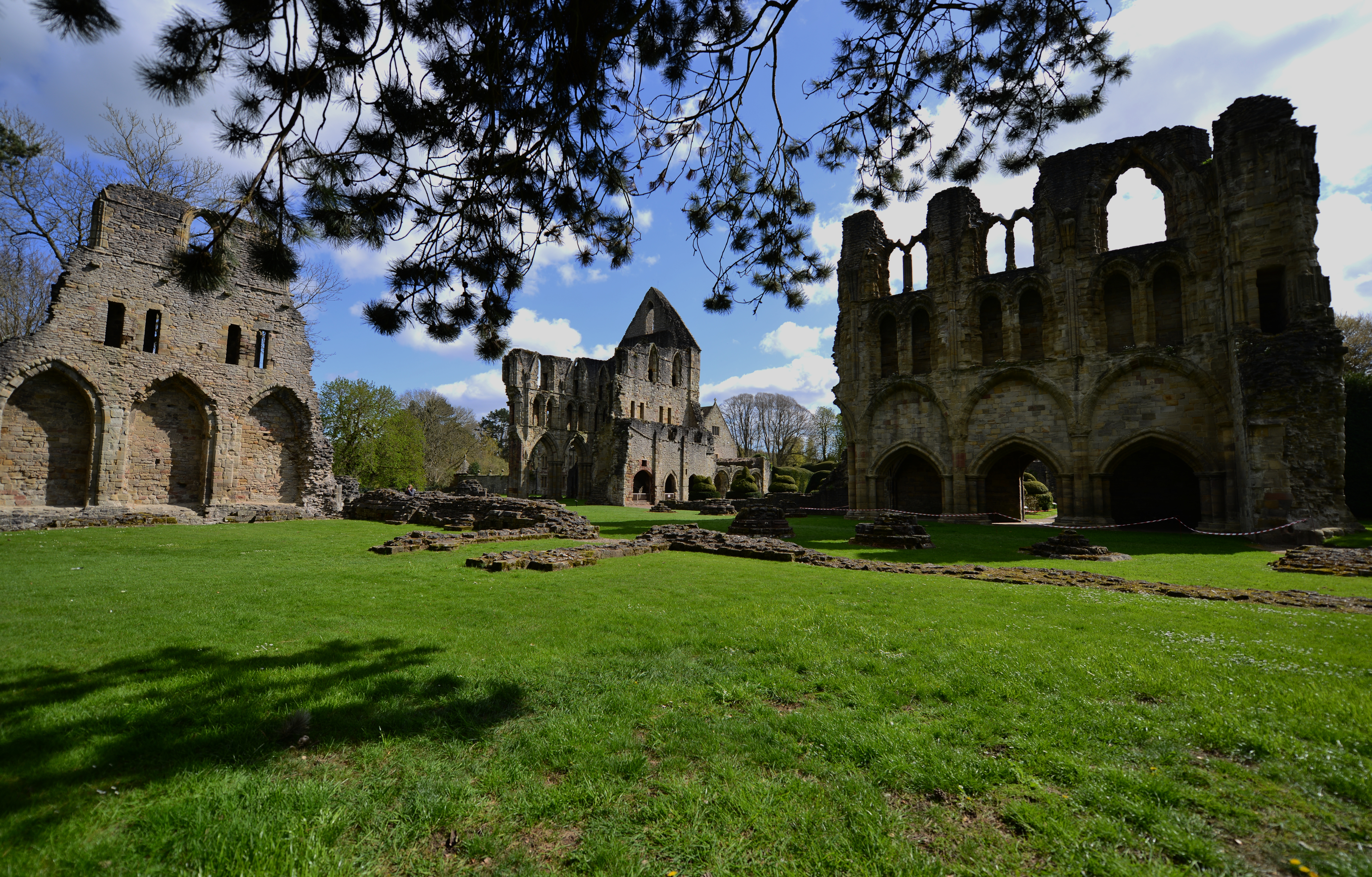 Photo by Michael Garlick